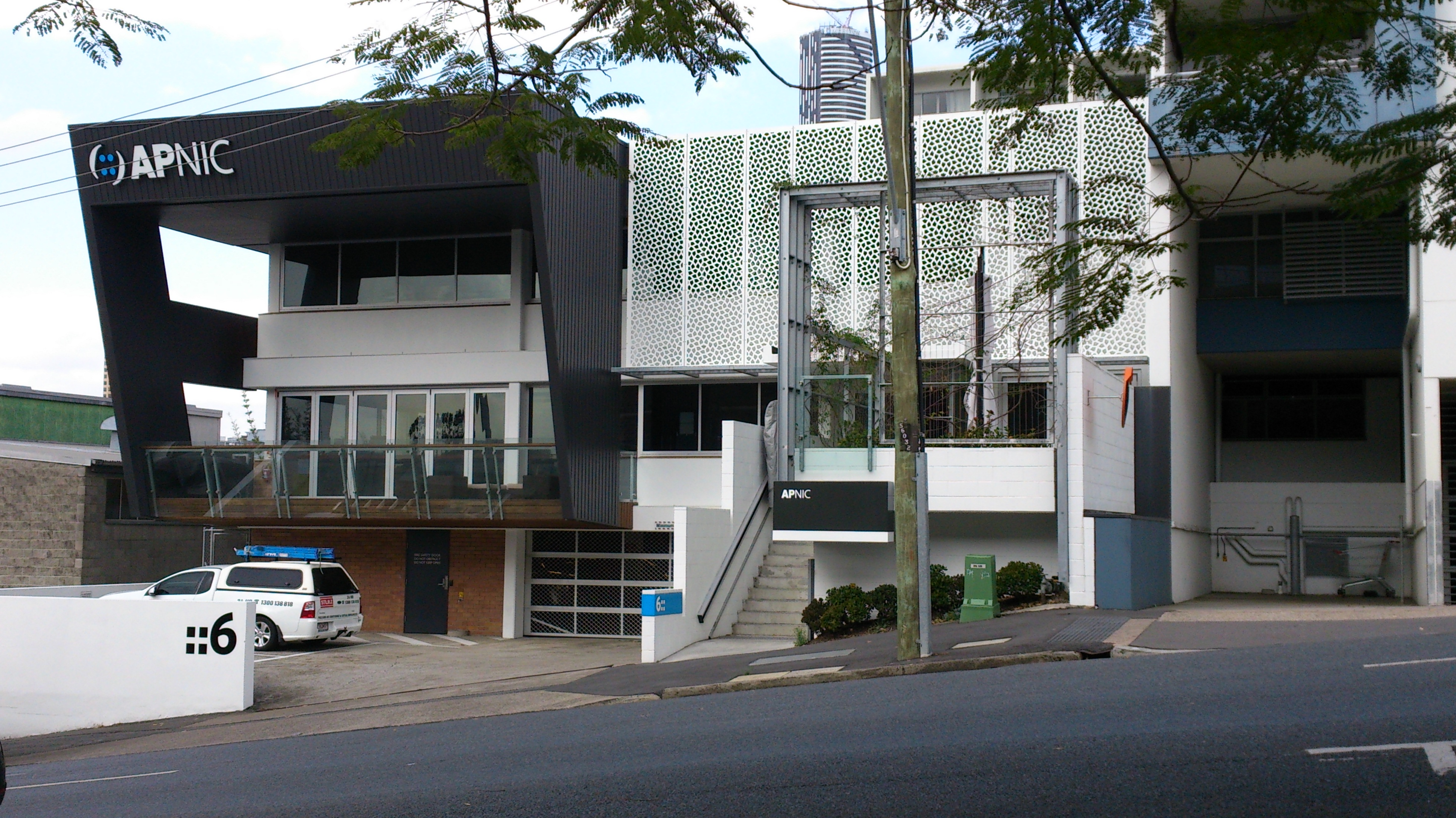 APNIC building at 6 Cordelia St, South Brisbane QLD 4101